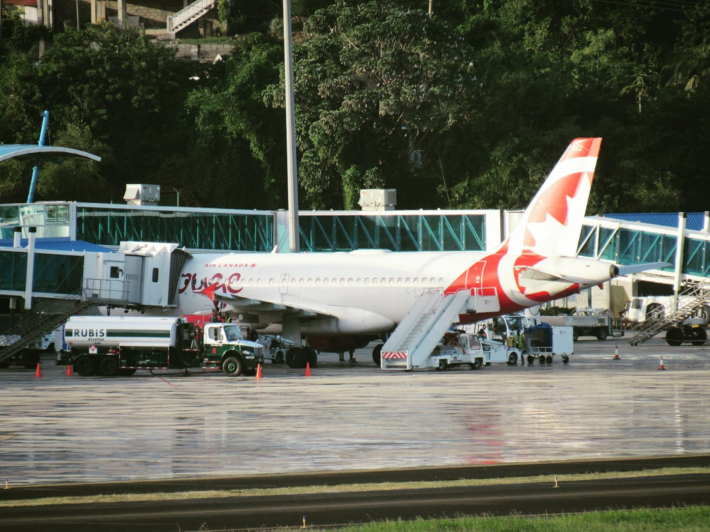 Air Canada Rouge at Argyle, tarmac view.